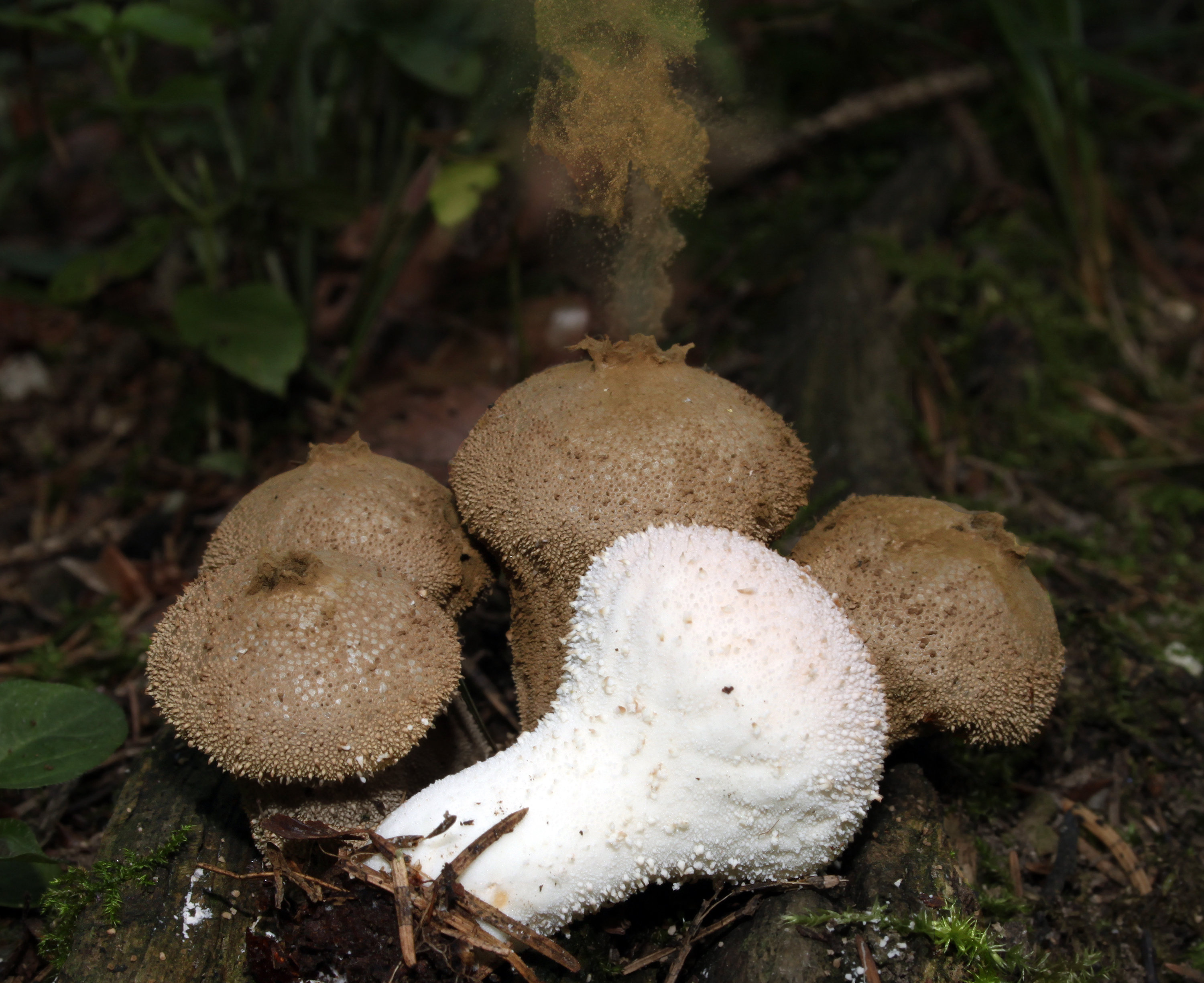 Lycoperdon perlatum, common puffball, gem-studded puffball, devil's snuff-box, location: Southern Germany, Baden-Württemberg, Ulm, coniferous forest